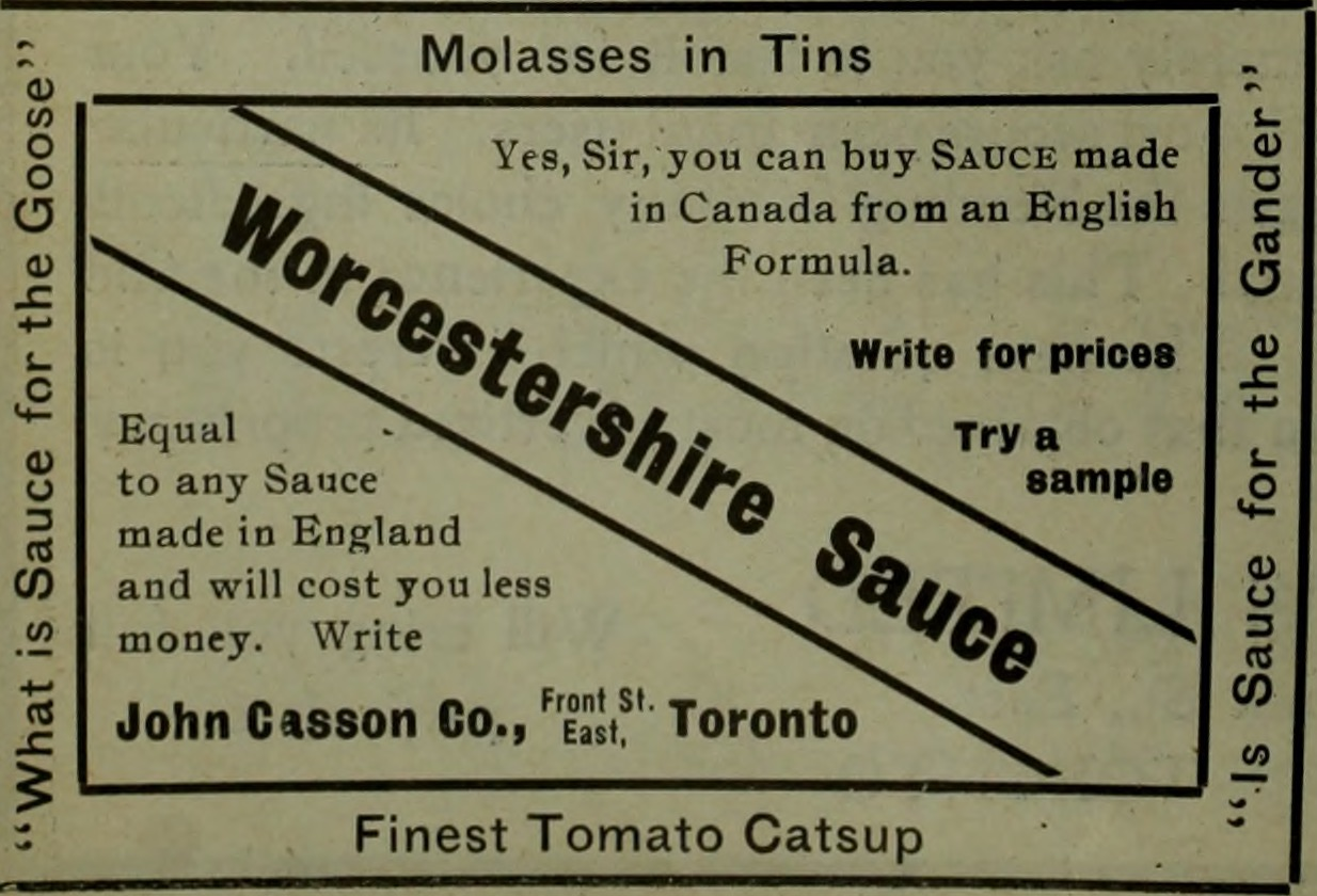 As per title.